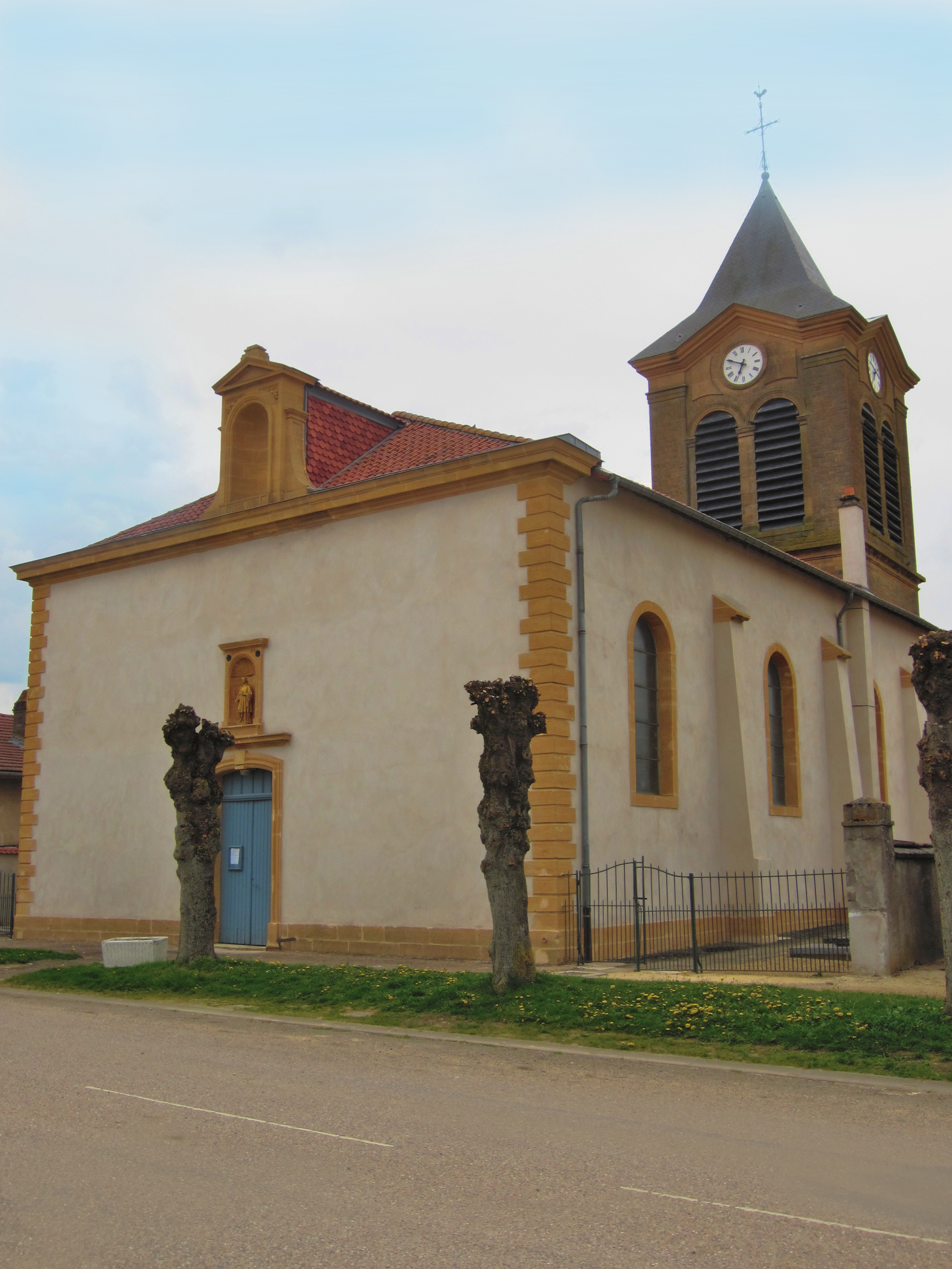 Jonville Woevre church